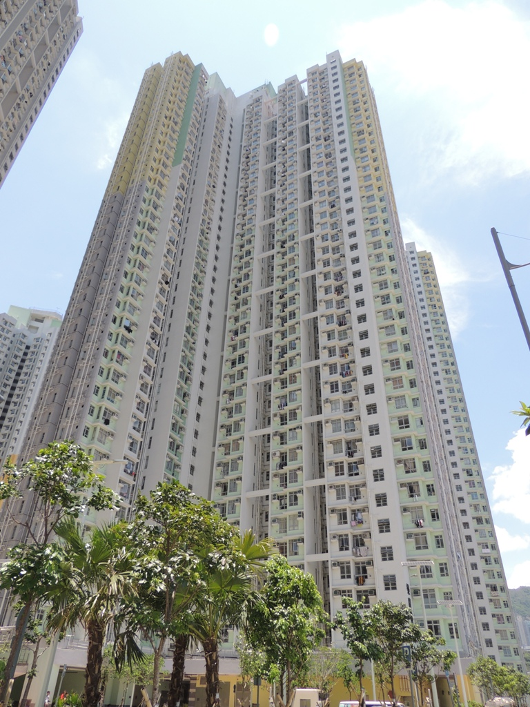 Lok Ching House